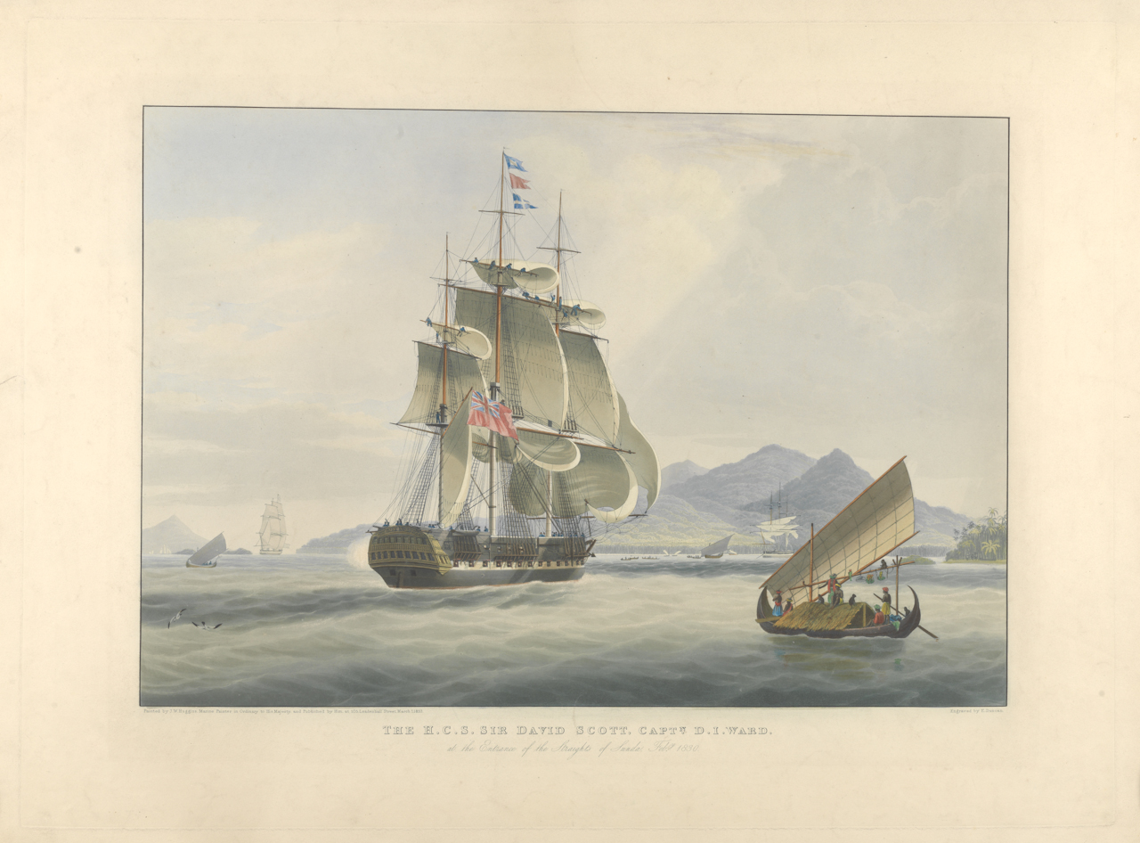 The H.C.S. Sir David Scott Captn D.I. Ward, at the Entrance of the Straights of Sunda Feby 1830 Print The H.C.S. Sir David Scott Captn D.I. Ward, at the Entrance of the Straights of Sunda Feby 1830